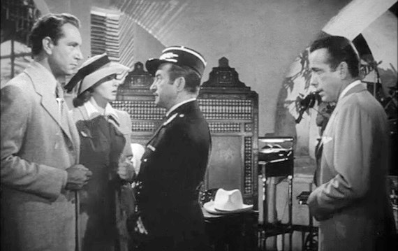 Screenshot of Paul Henreid, Ingrid Bergman, Claude Rains and Humphrey Bogart from the trailer for the film Casablanca.